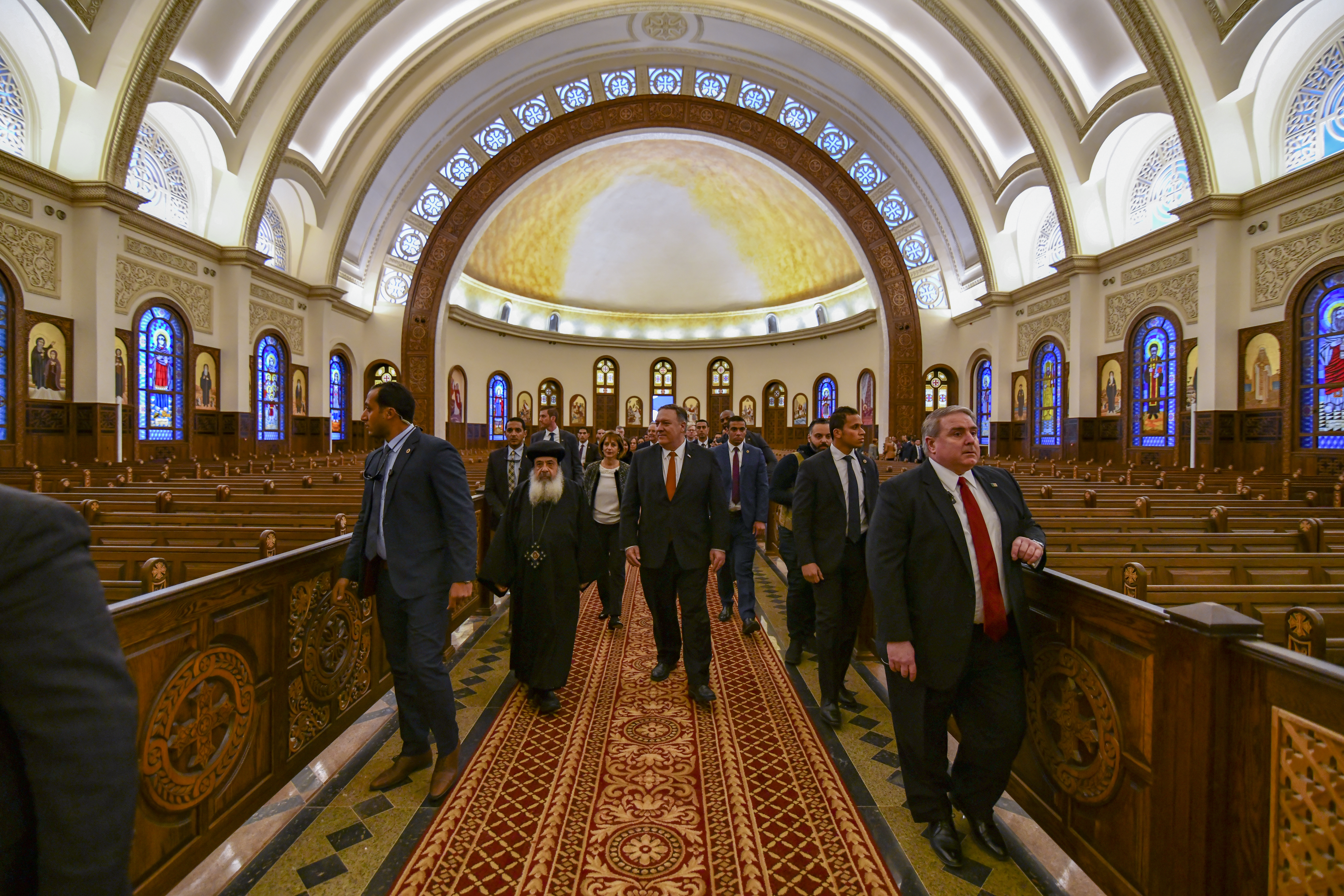 U.S. Secretary of State Michael R. Pompeo visits the Cathedral of the Nativity in Cairo, Egypt, on January 10, 2019. [State Department photo/Public Domain]